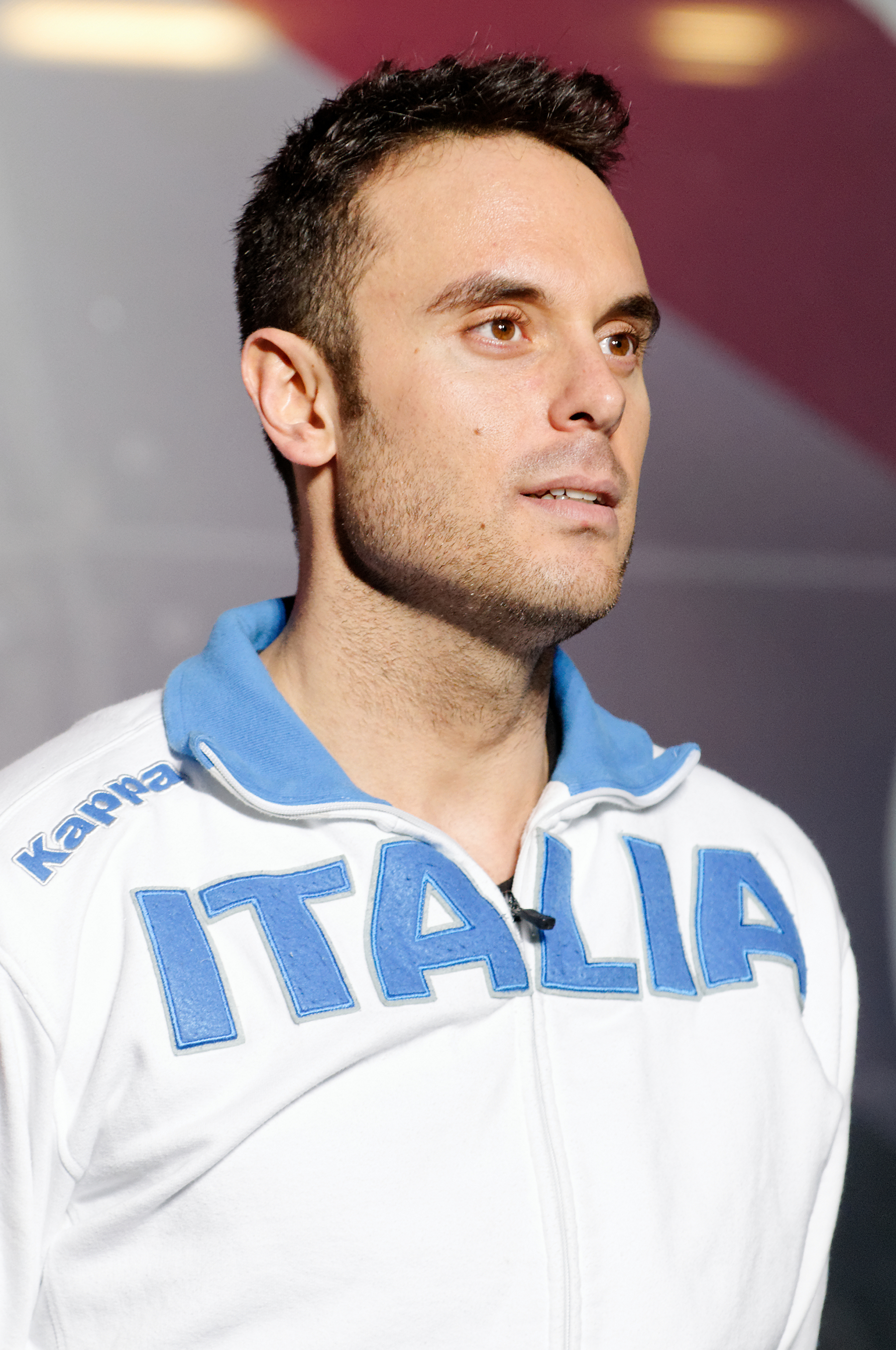 Italian fencer Paolo Pizzo on the podium of the Challenge Réseau Ferré de France–Trophée Monal 2012.